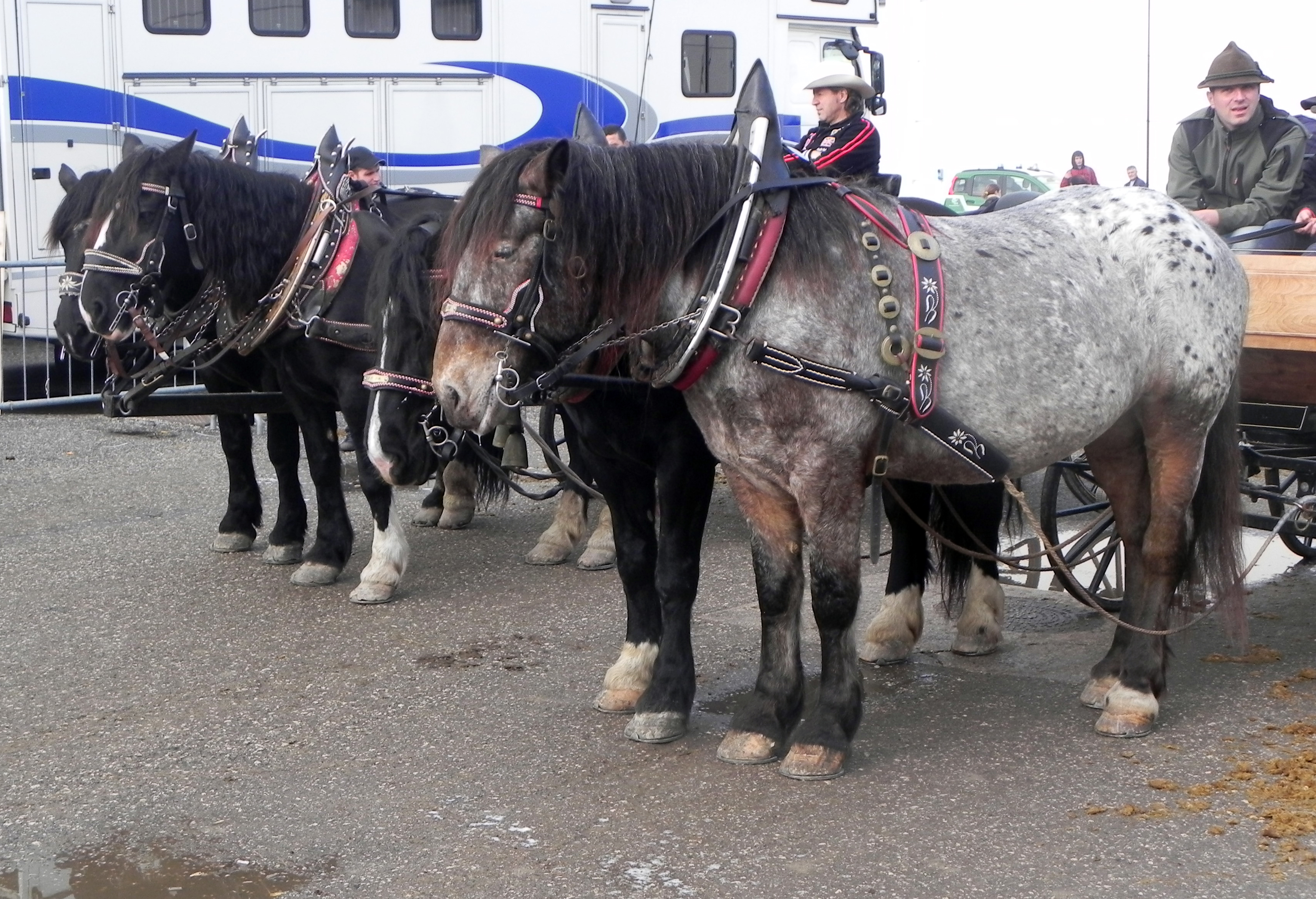 Noriker, hitched four abreast, photographed at Fieracavalli Verona, Italy.